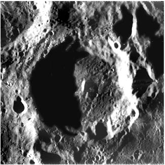 Alter lunar crater - USGS Digital Atlas PDF LO - LAC 54